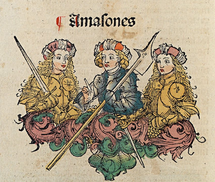 This is a part of a scan of an historical document: Title: Schedelsche Weltchronik or Nuremberg Chronicle